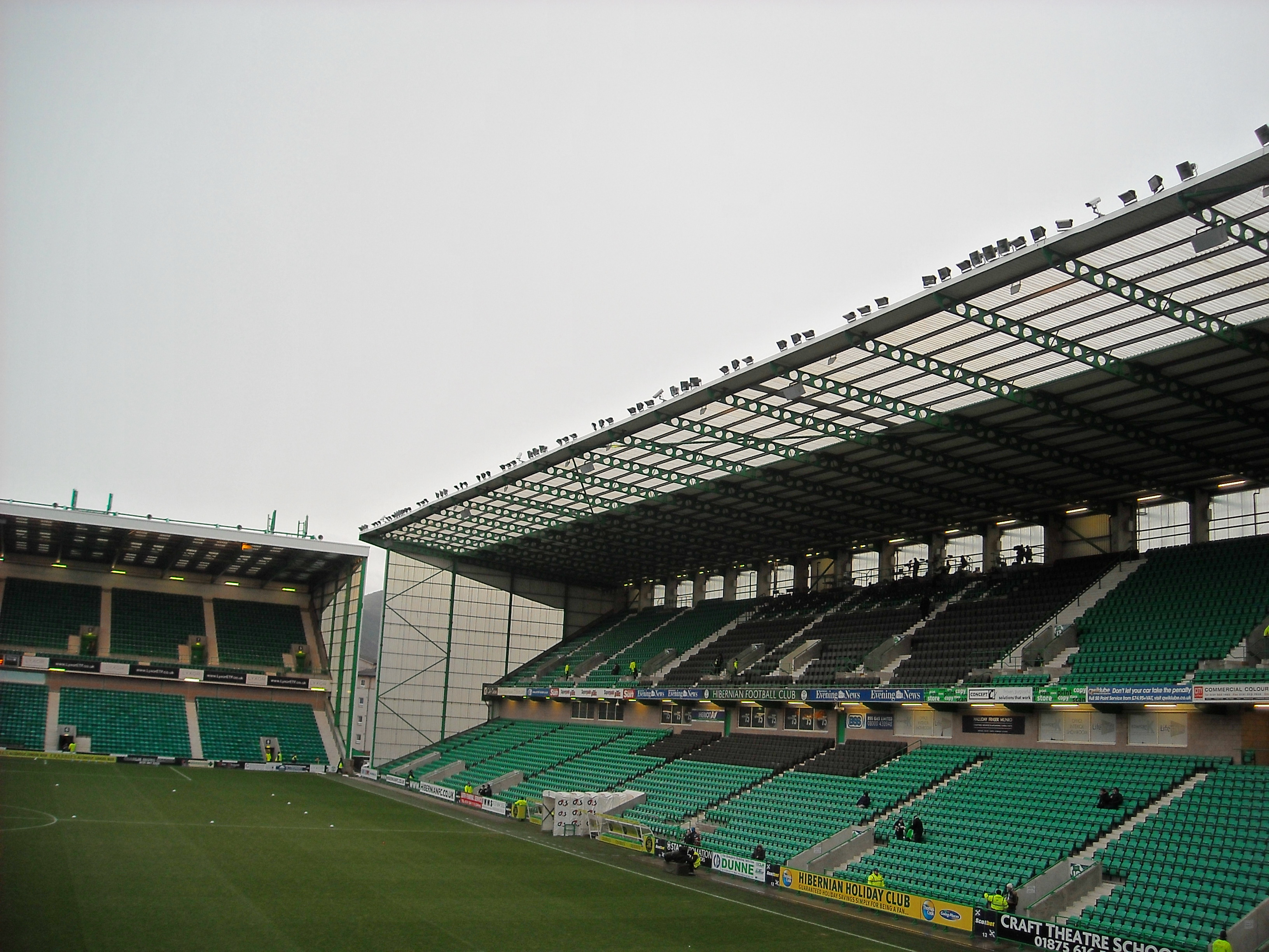 Hibernian v Kilmarnock William Hill Scottish Cup 5th Round